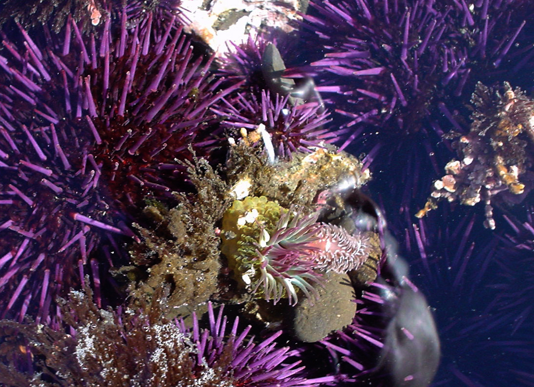 Shag-Rug Aeolis Aeolidiidae Aeolidiella papillosa is attacking a Sea Anemone. You also could see sea urchins at the image.